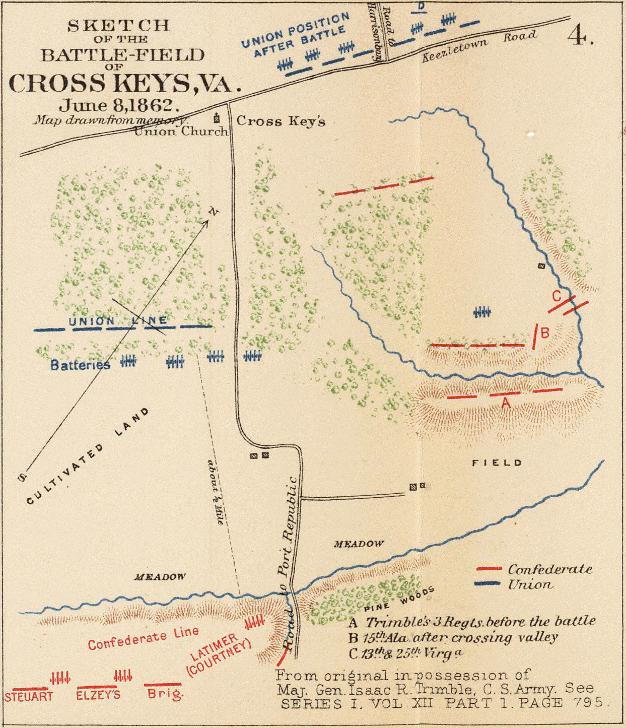 Sketch of the battle-field of Cross Keys, Va., June 8, 1862. ... Julius Bien & Co., Lith., N.Y. (1891-1895)Author: United States. War Department